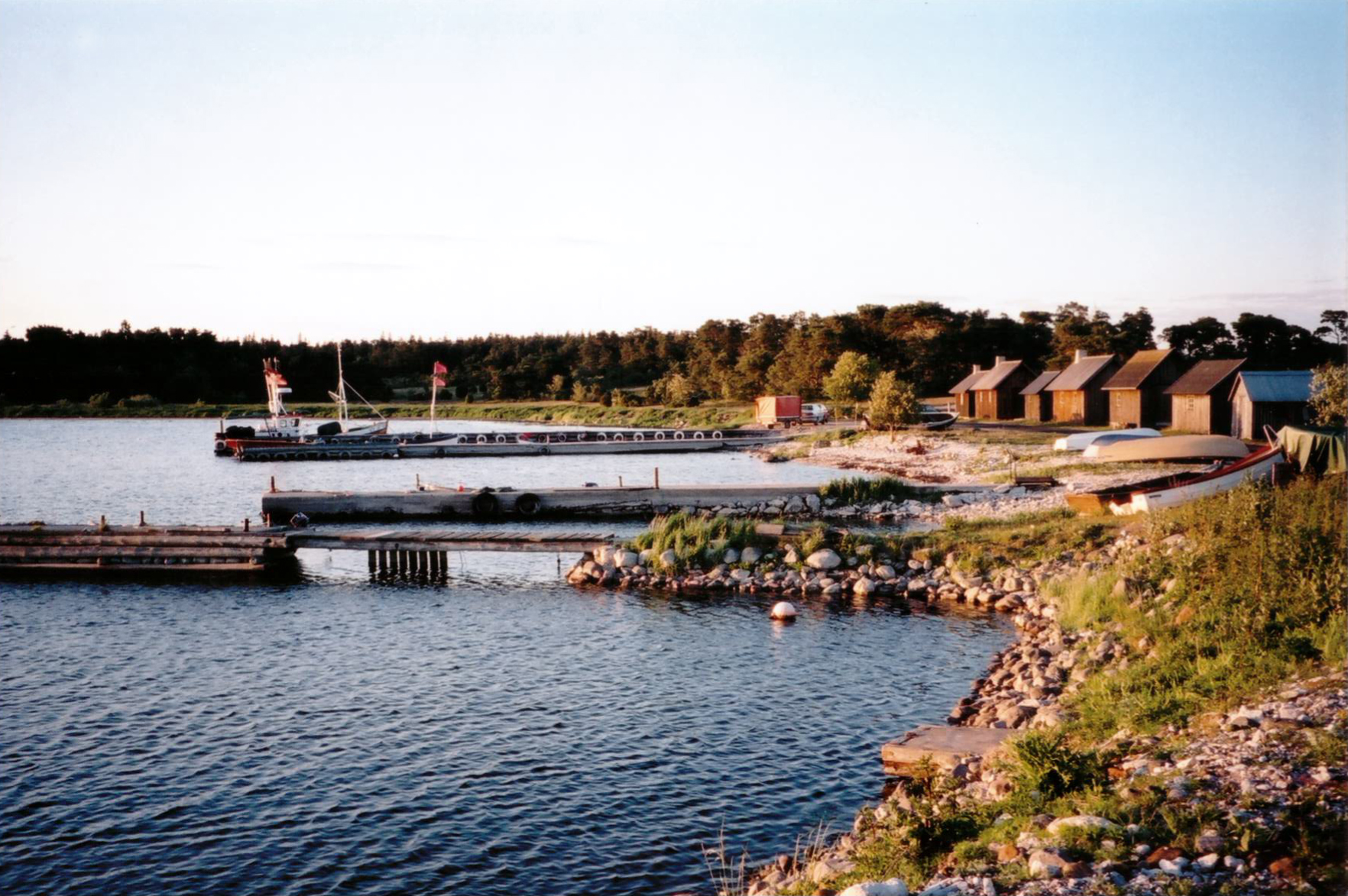 Jetties in the harbour of Sjauster fishing village, Gotland, Sweden.